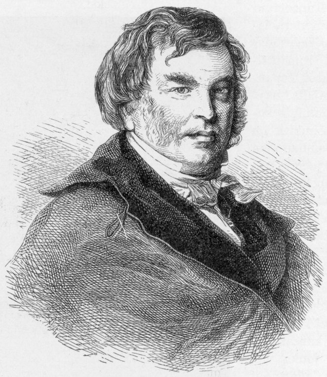 Fredrik Cygnaeus, Finnish professor, writer and art patron